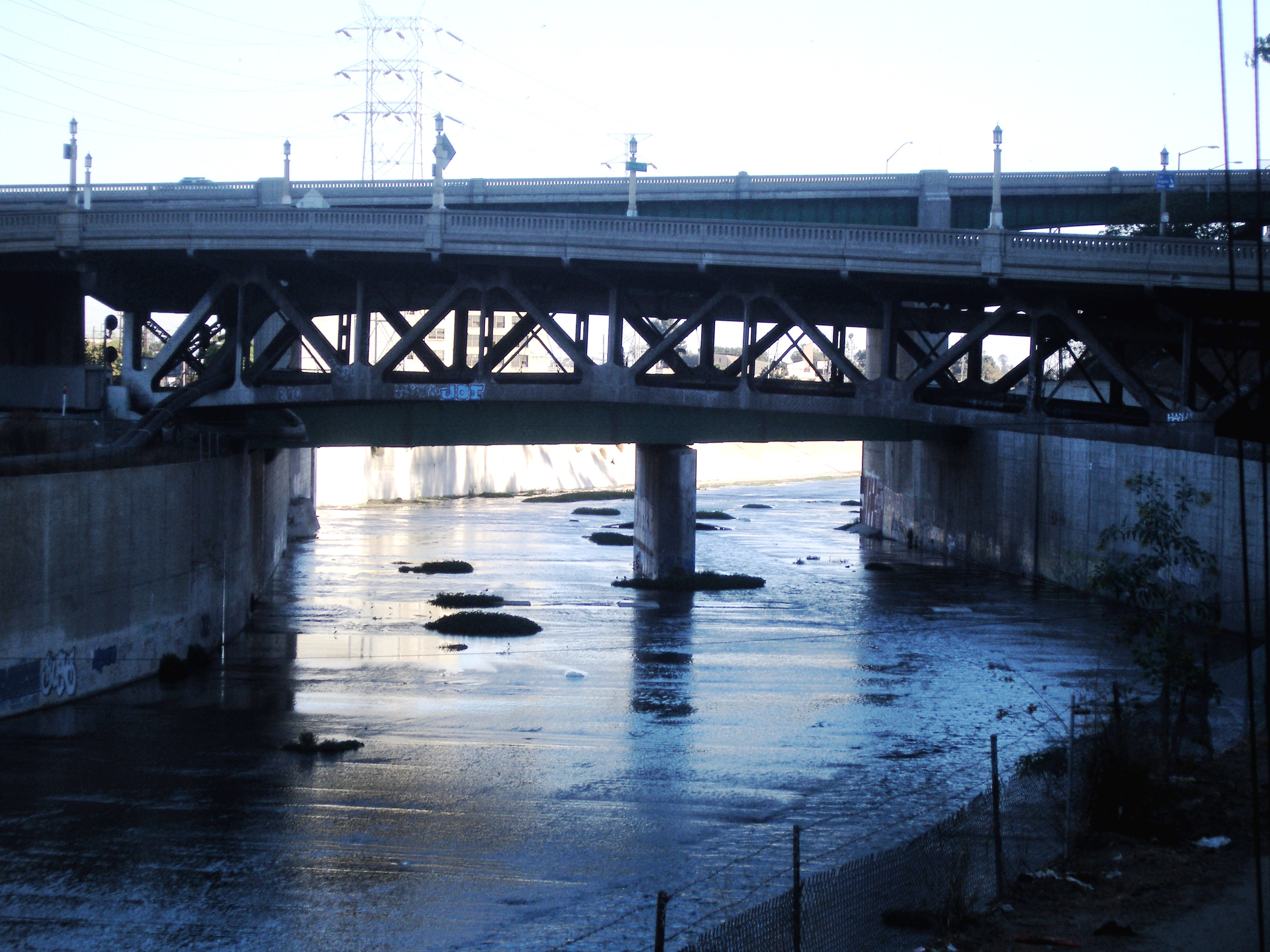 It was the Dayton Ave. Bridge, before the Arroyo Seco Parkway (110) wiped out Dayton Avenue, (I think).